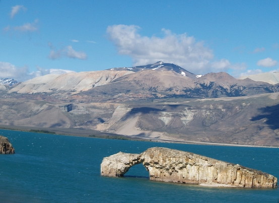 Lago Posadas, Patagonia, Argentina (2008) (Derivative work. See details below)